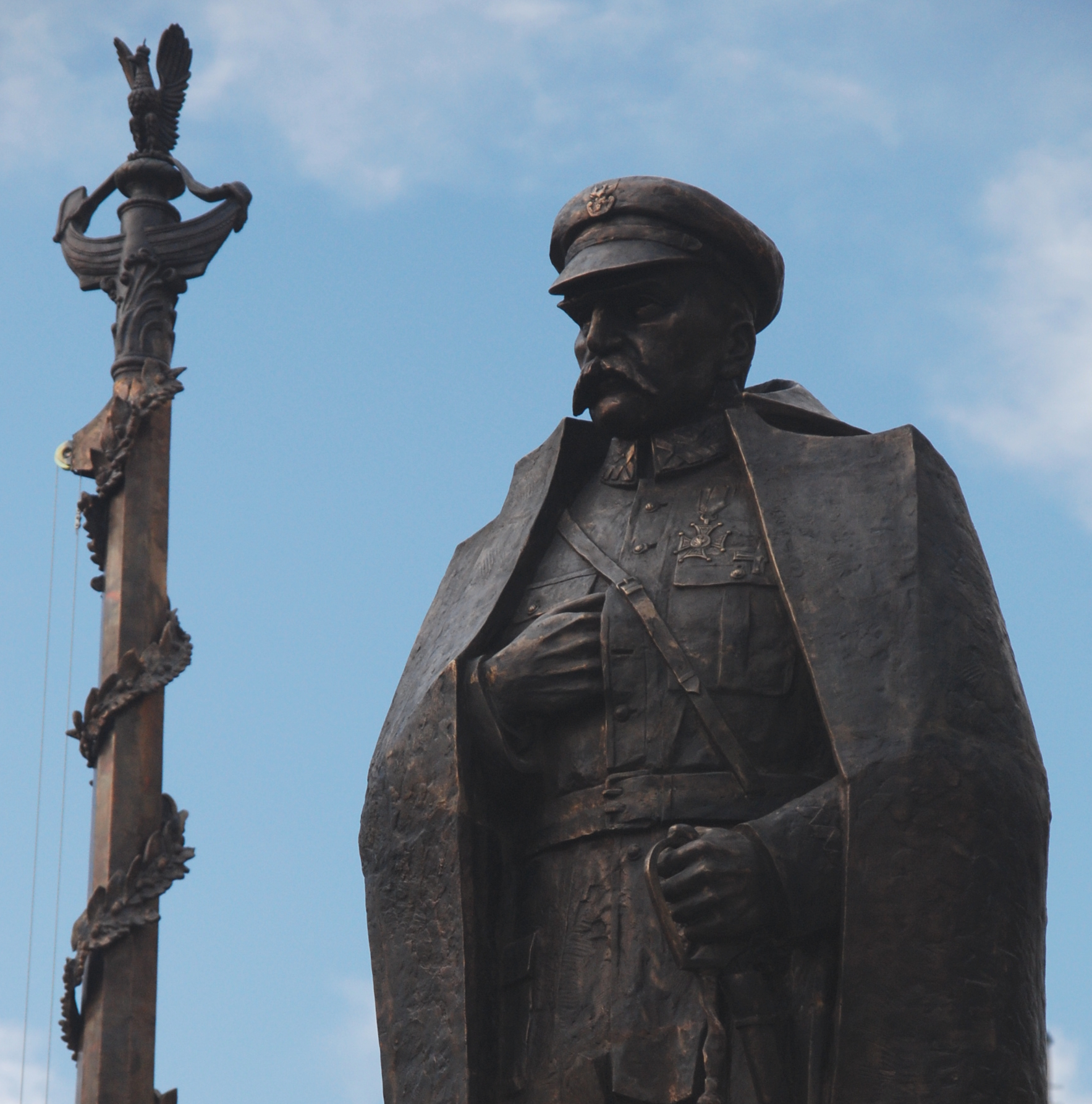 Józef Piłsudski Monument, Kraków